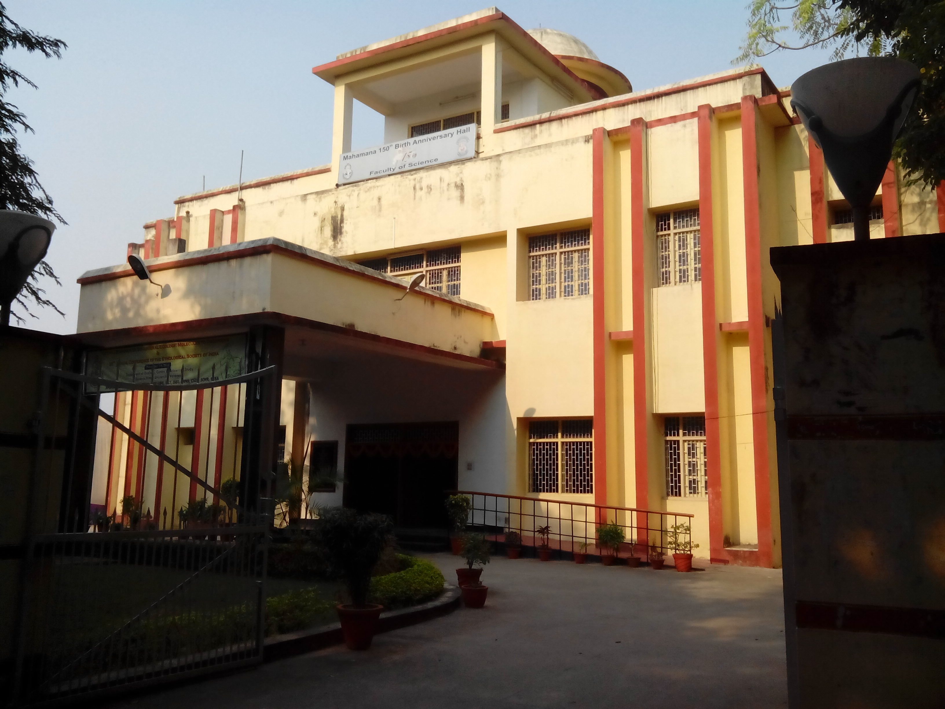 faculty of science seminar hall, bhu